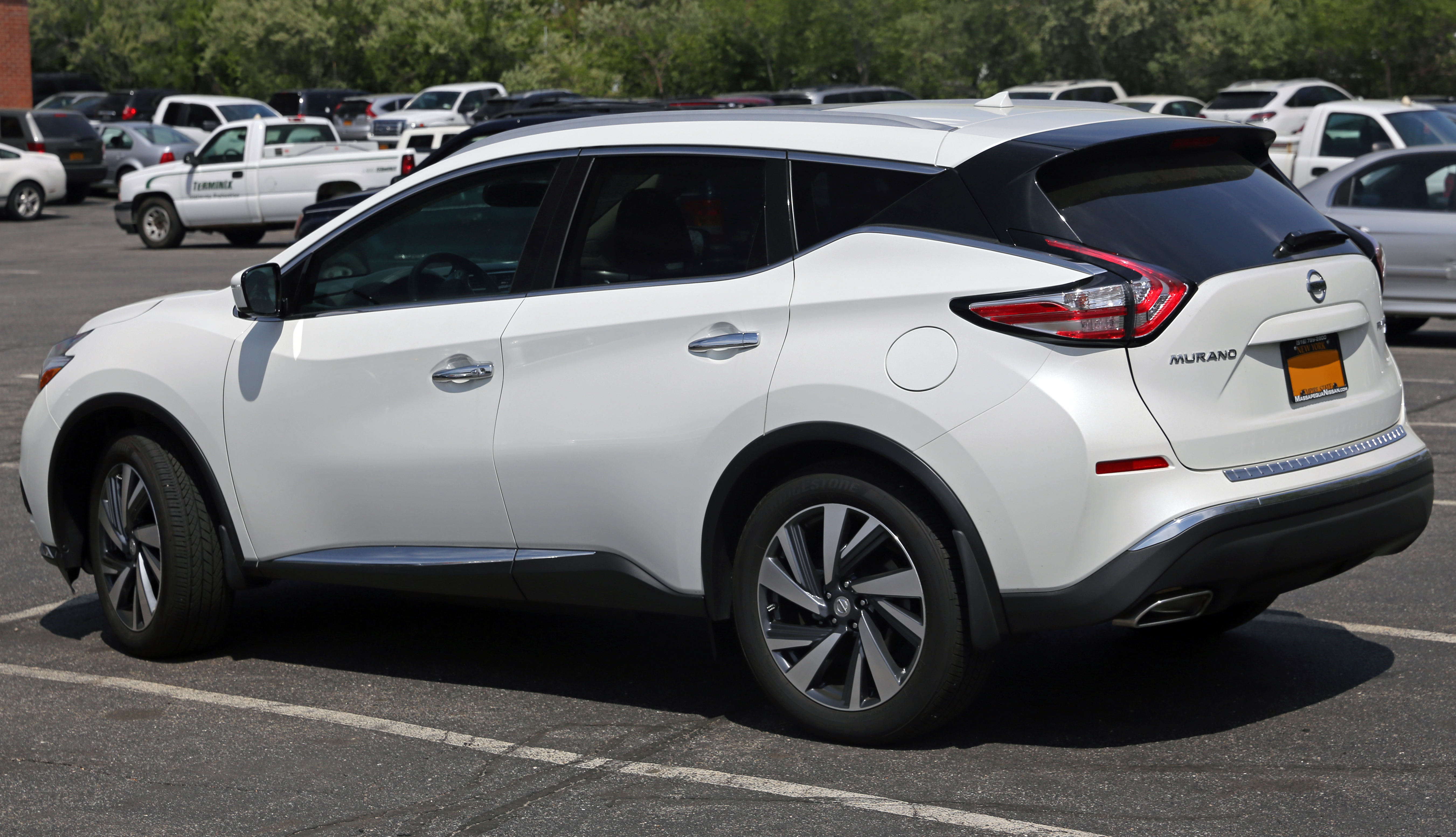 A 2015 Nissan Murano SV AWD. 3.5 litre V6, CVT, and four-wheel drive. Looks better than earlier generations.